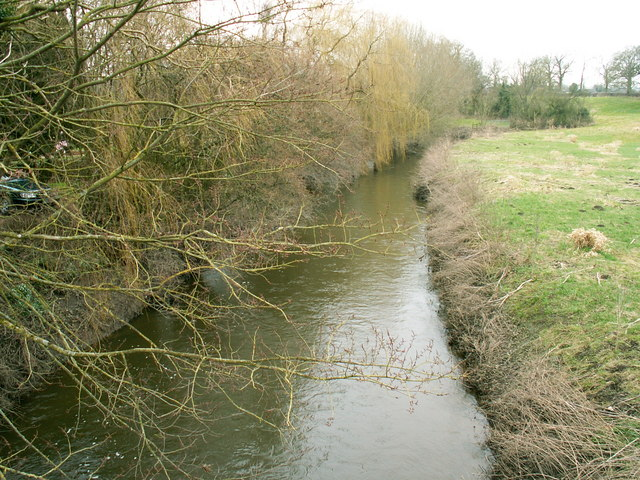 River Perry, south of Mytton. River Perry, south of Mytton, North of Montford Bridge, near Shrewsbury, Shropshire